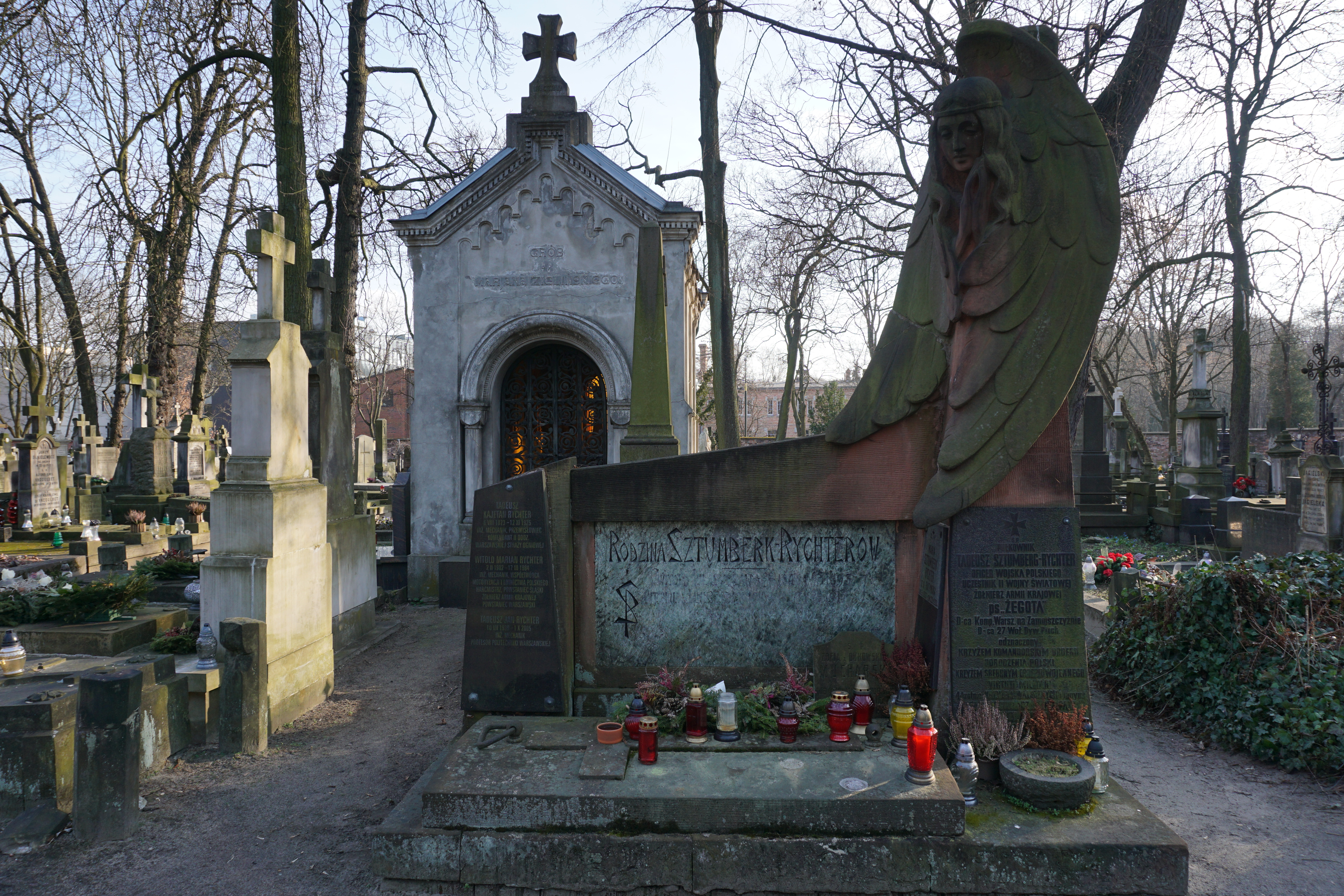 The grave of Witold Rychter at the Powązki Cemetery (section 175, row 2, grave 1)